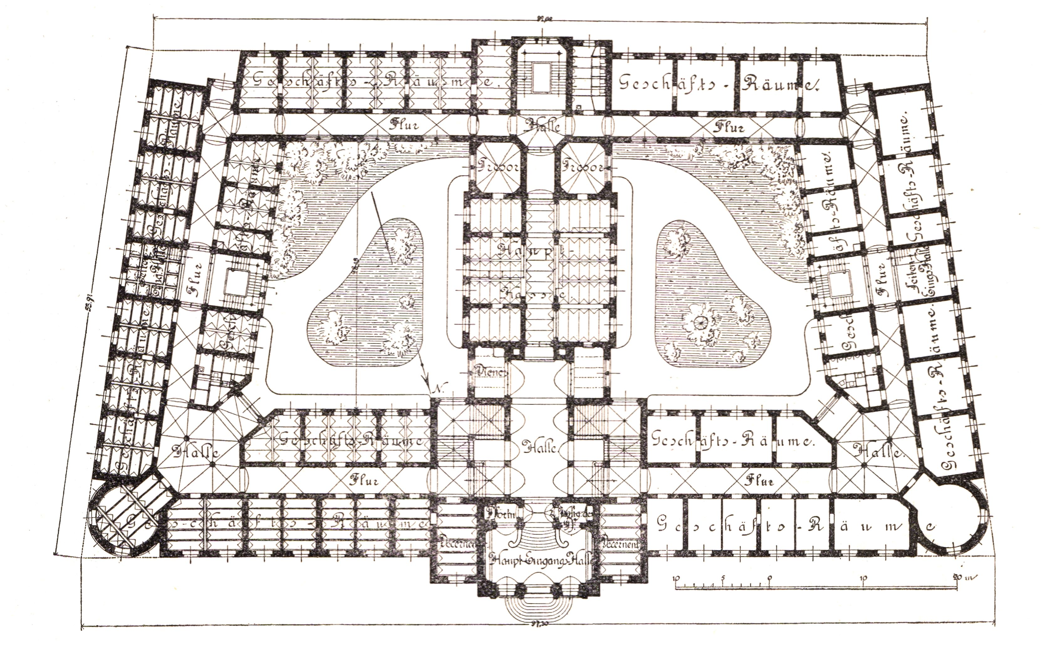 Berlin - Königliche Eisenbahndirektion, plan ground floor